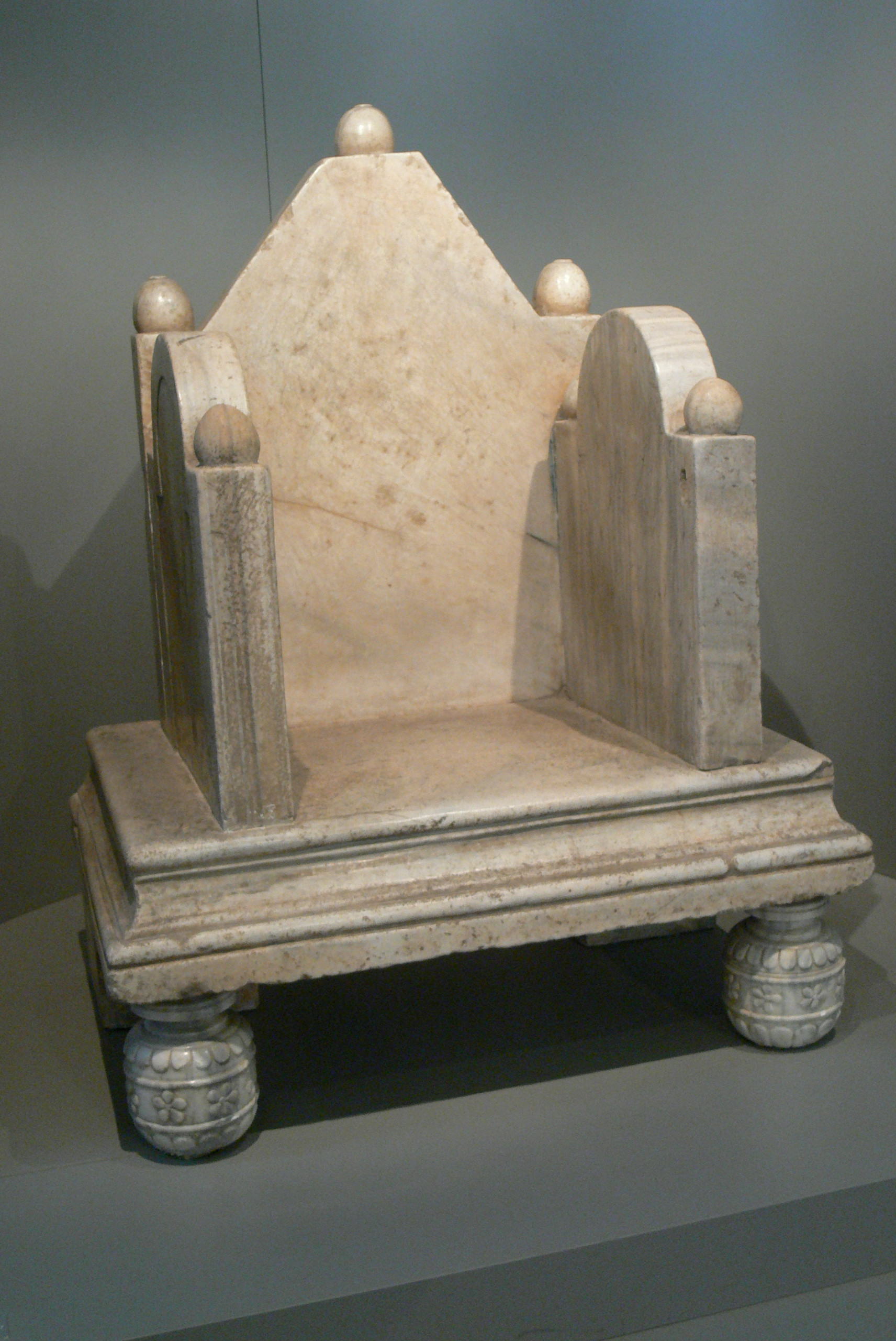 Cividale, Italy. Museo Cristiano: Throne of the patriarch (11th century).